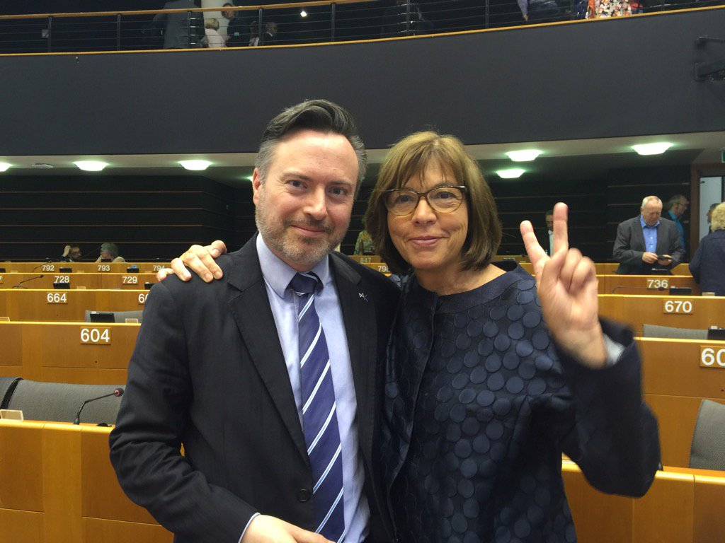 Alyn Smith with Rebecca Harms, both MEPs